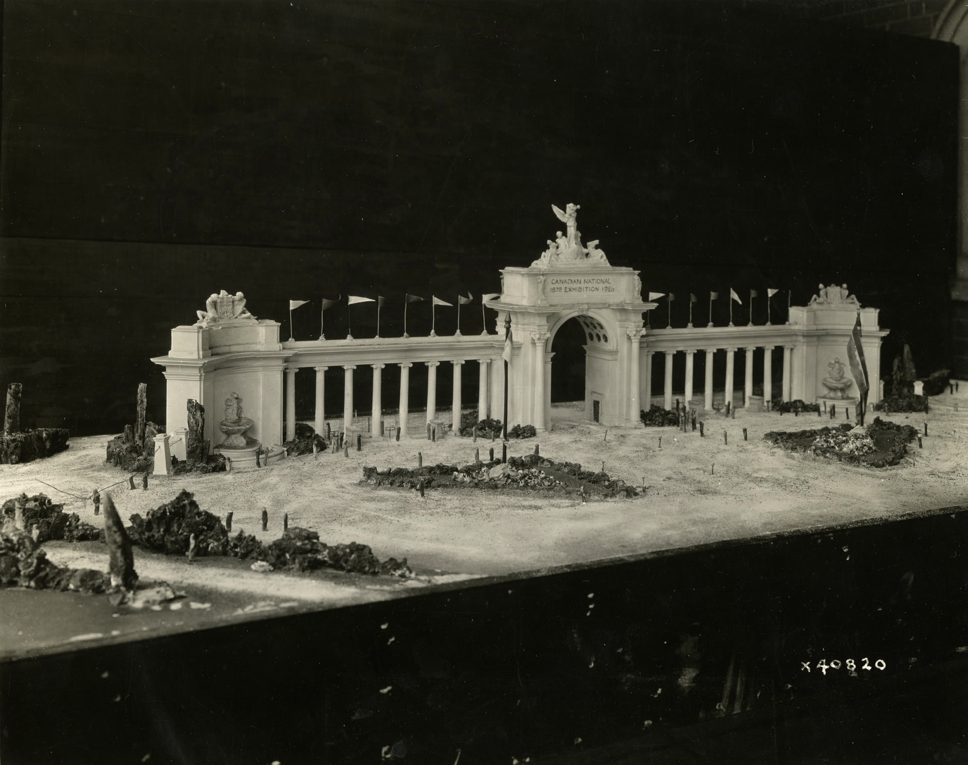 The original architectural model of the Princes' Gates in Toronto.